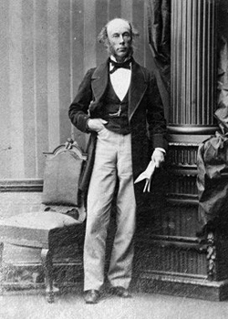 Edwin Richard Windham Wyndham-Quin, 3rd Earl of Dunraven and Mount-Earl Camille Silvy, 3 July 1861